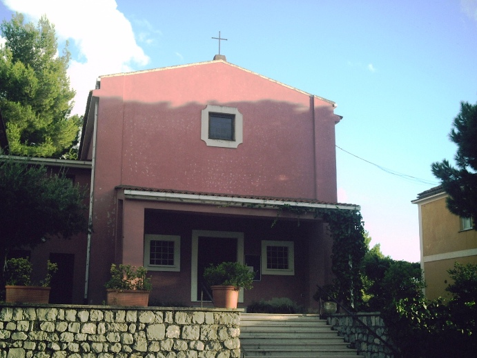 church of Fiumicello